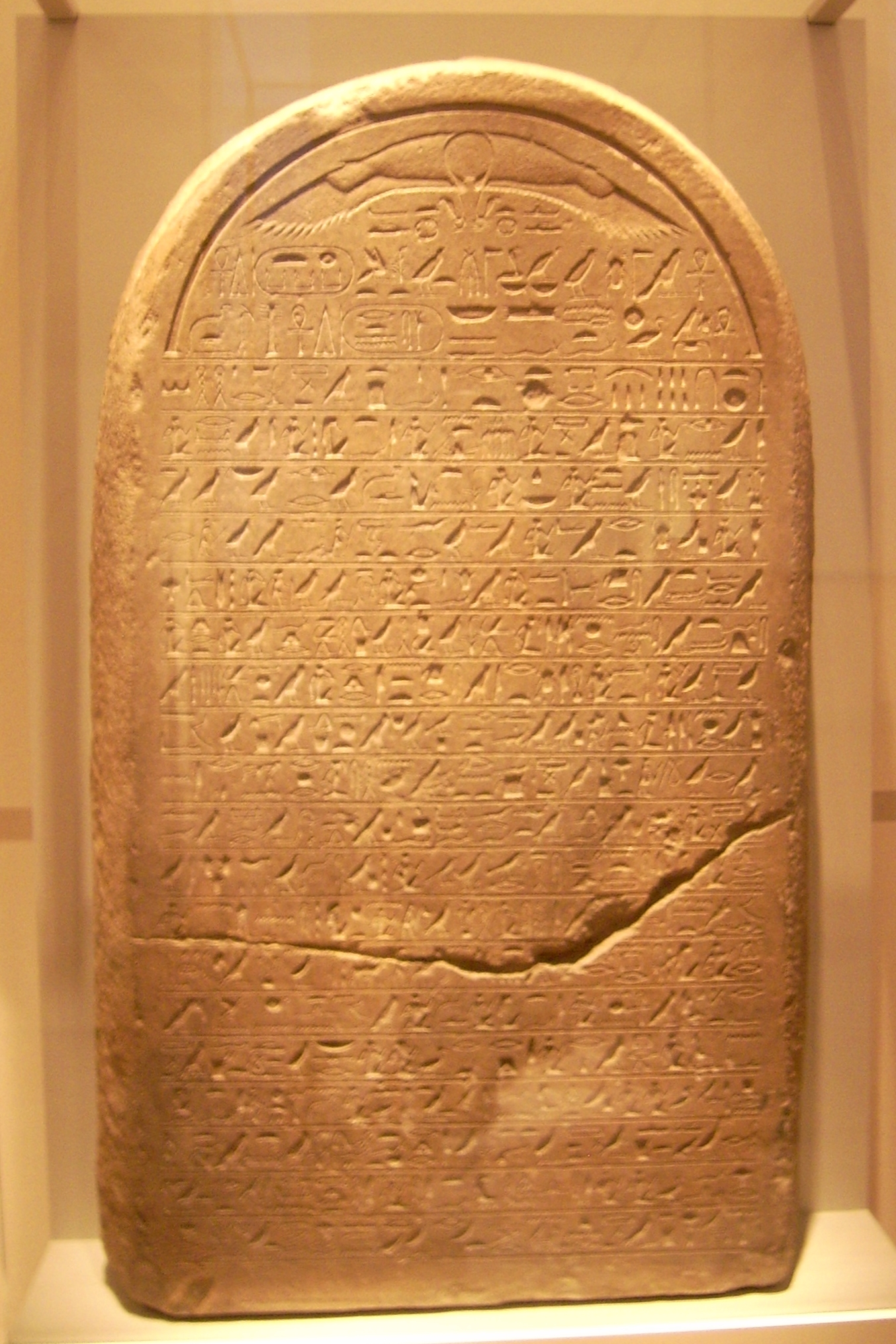 Border Stela of Senusret III]. Middle Kingdom of Egypt, 12th dynasty, c. 1860 BC